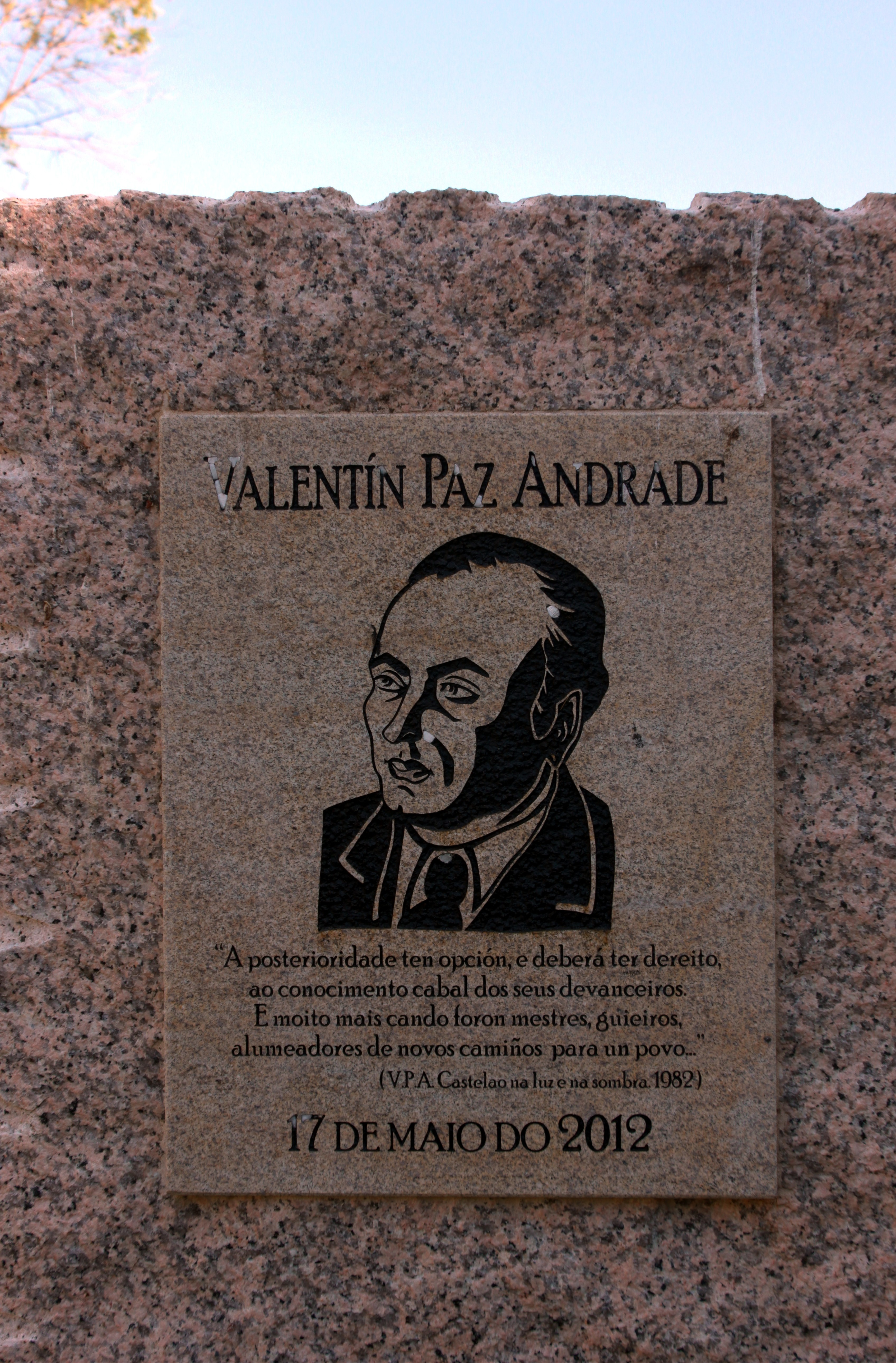 Plaque dedicated to Valentin Paz-Andrade, in the namesake High School in Vigo, Galicia, Spain.